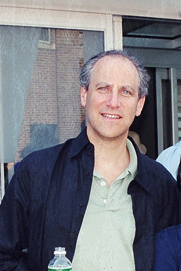 Glenn D. Lowry, director of MOMA, while opening MOMA Queens in June 2002